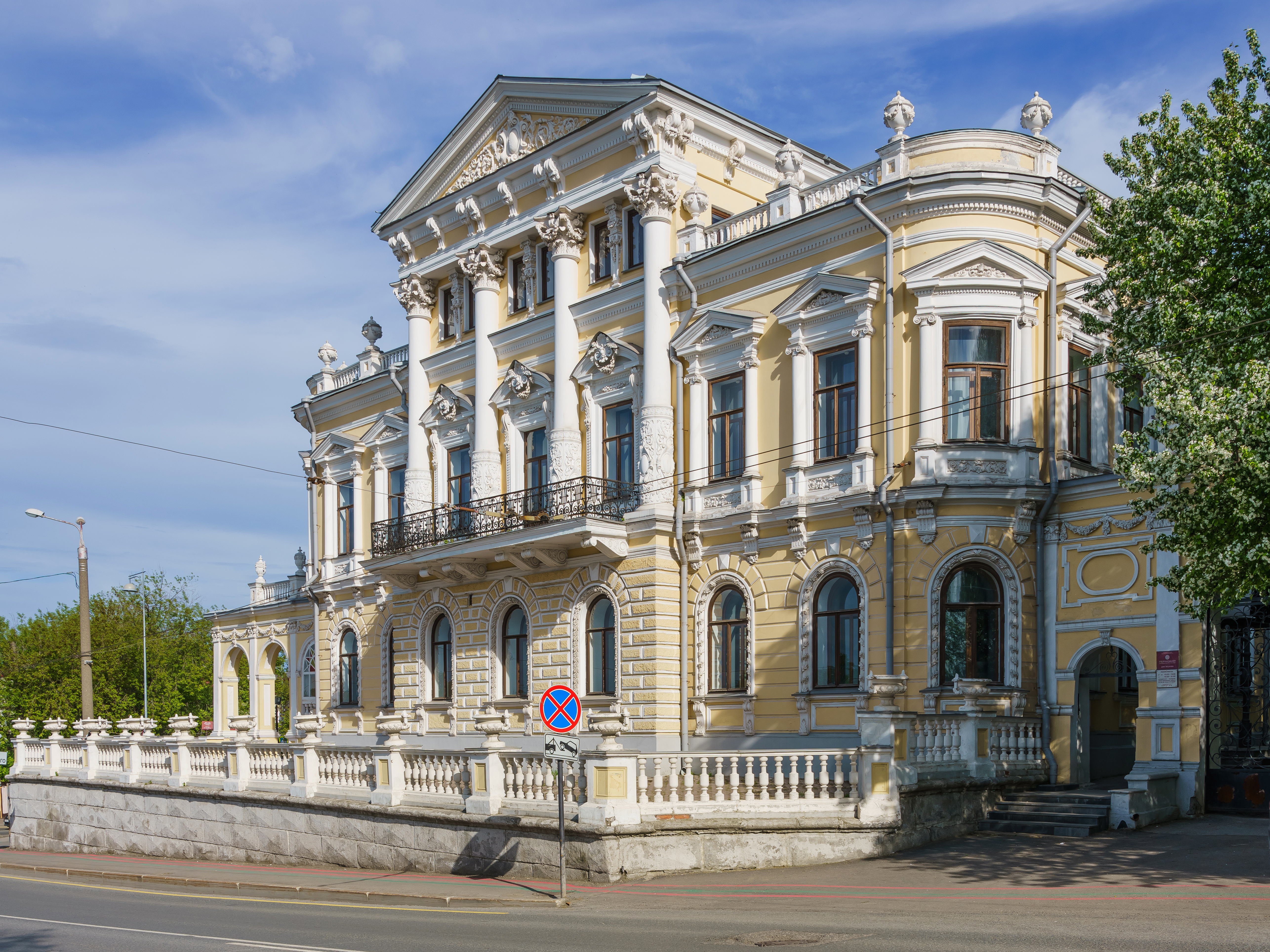 Building ensemble at Monastyrskaya Street 11 in Perm, Russia